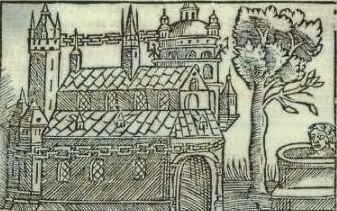 Image showing the golden chain on the Temple at Uppsala, the well and the tree, from Olaus Magnus' Historia de Gentibus Septentrionalibus. (1555)